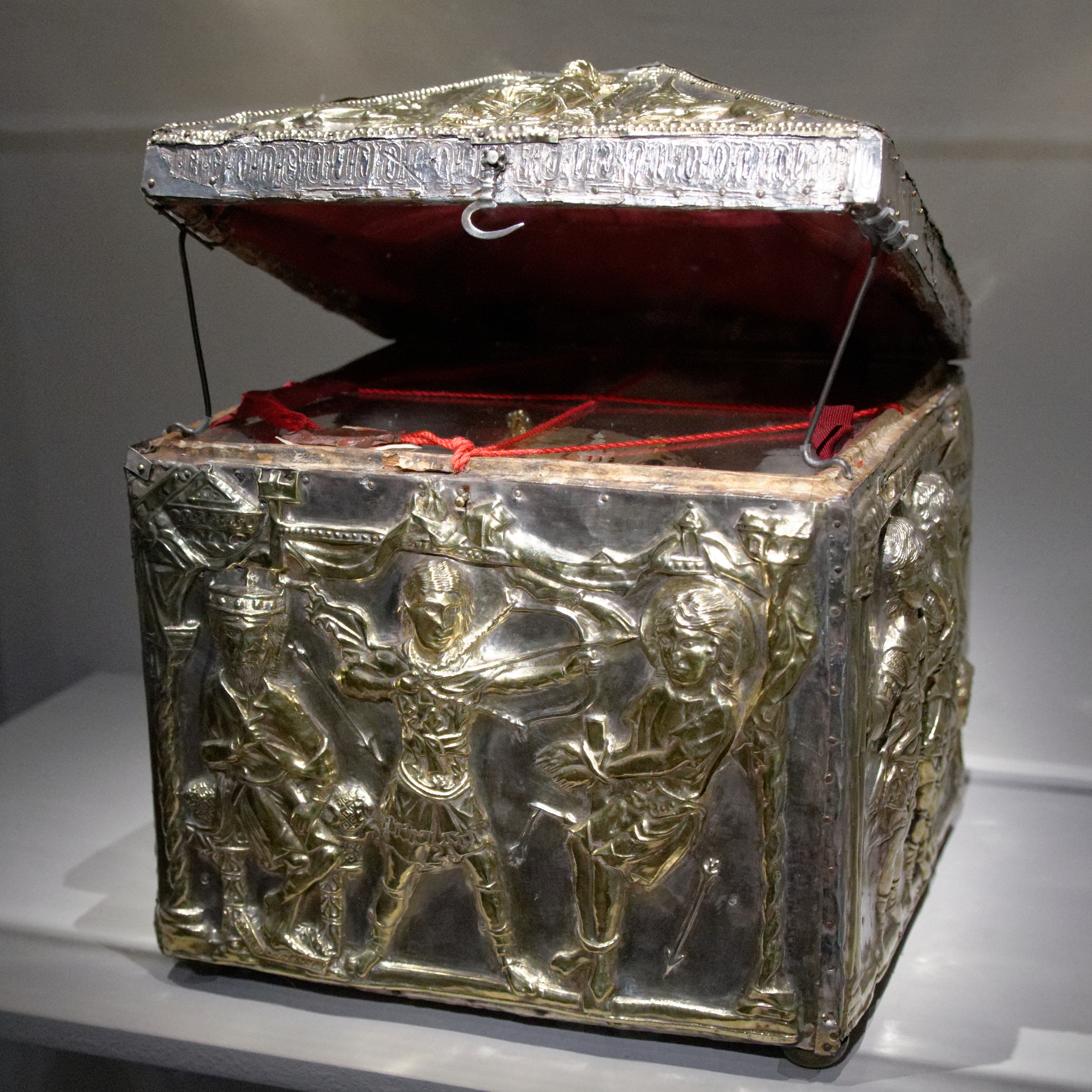 Cask reliquary of St Christopher.